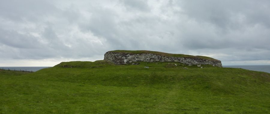 Carn Liath, a broch in Sutherland, Scotland